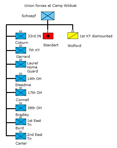 The Union forces at Camp Wildcat.